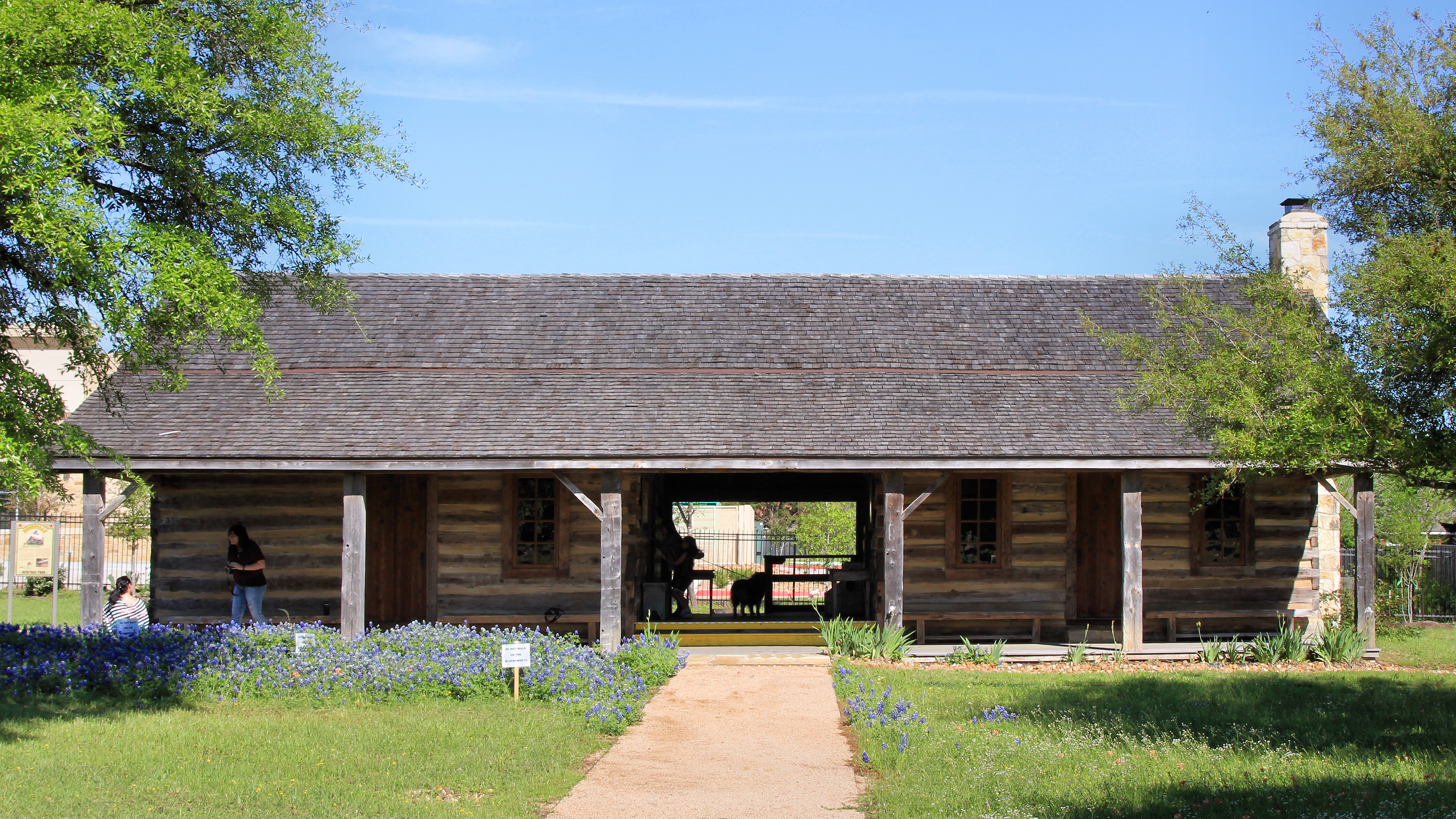 The Turner Peters Log Cabin at the Boonville Heritage Park, Bryan, Texas, United States. The cabin was built in Grimes County, Texas in 1856 and moved in 2015.